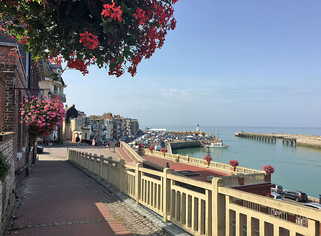 Le Tréport. Normandie France.